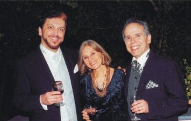 Renato Mismetti, Kilza Setti, Maximiliano de Brito